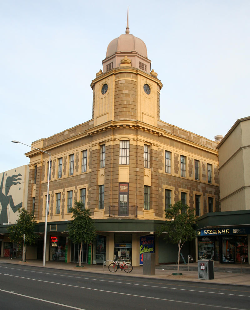 The Colonial Mutual Life Assurance Building, Market Square, Geelong, Victoria, Australia